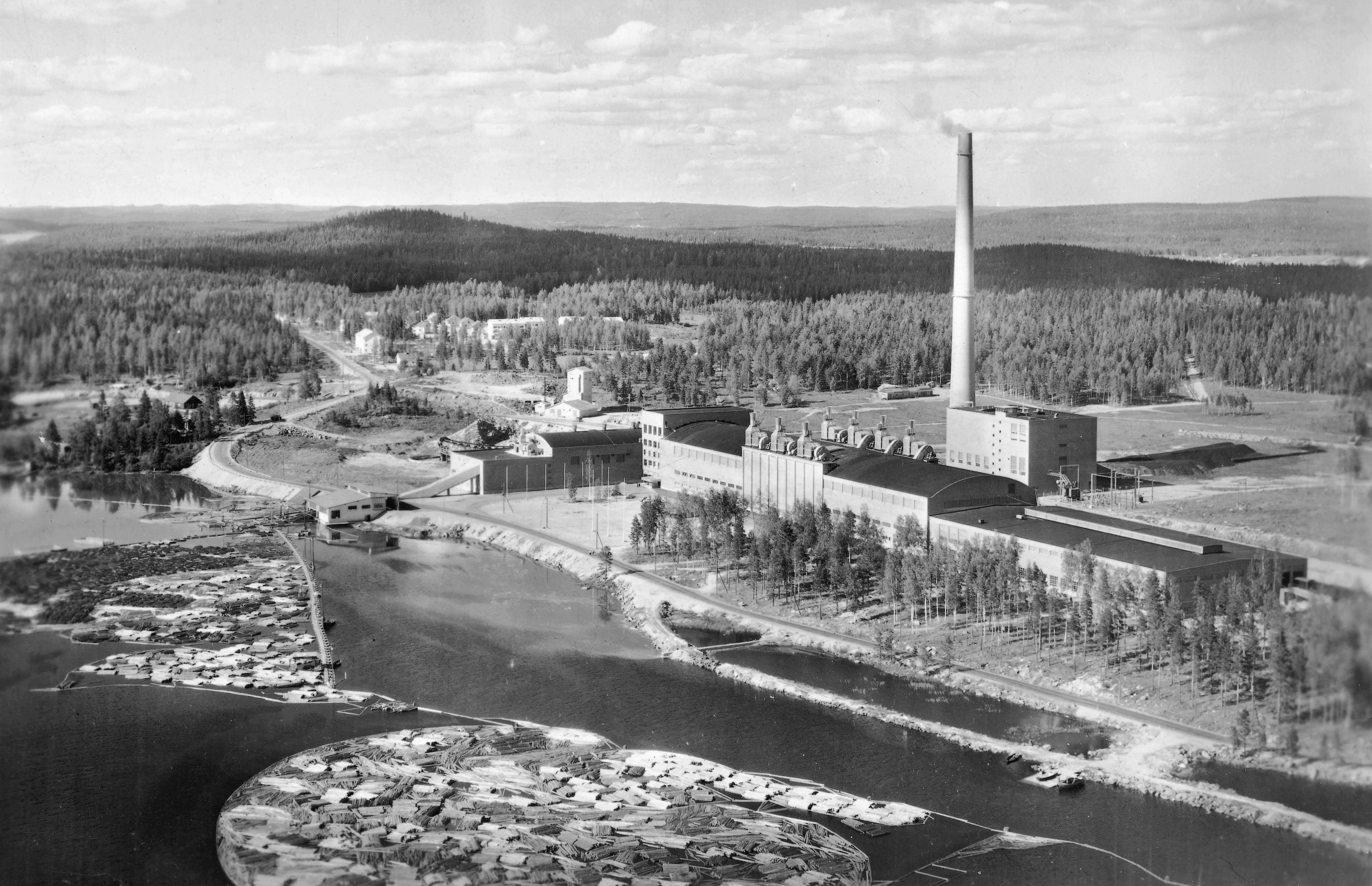 Kaipola paper mill in Jämsän, Finland in mid 1950s